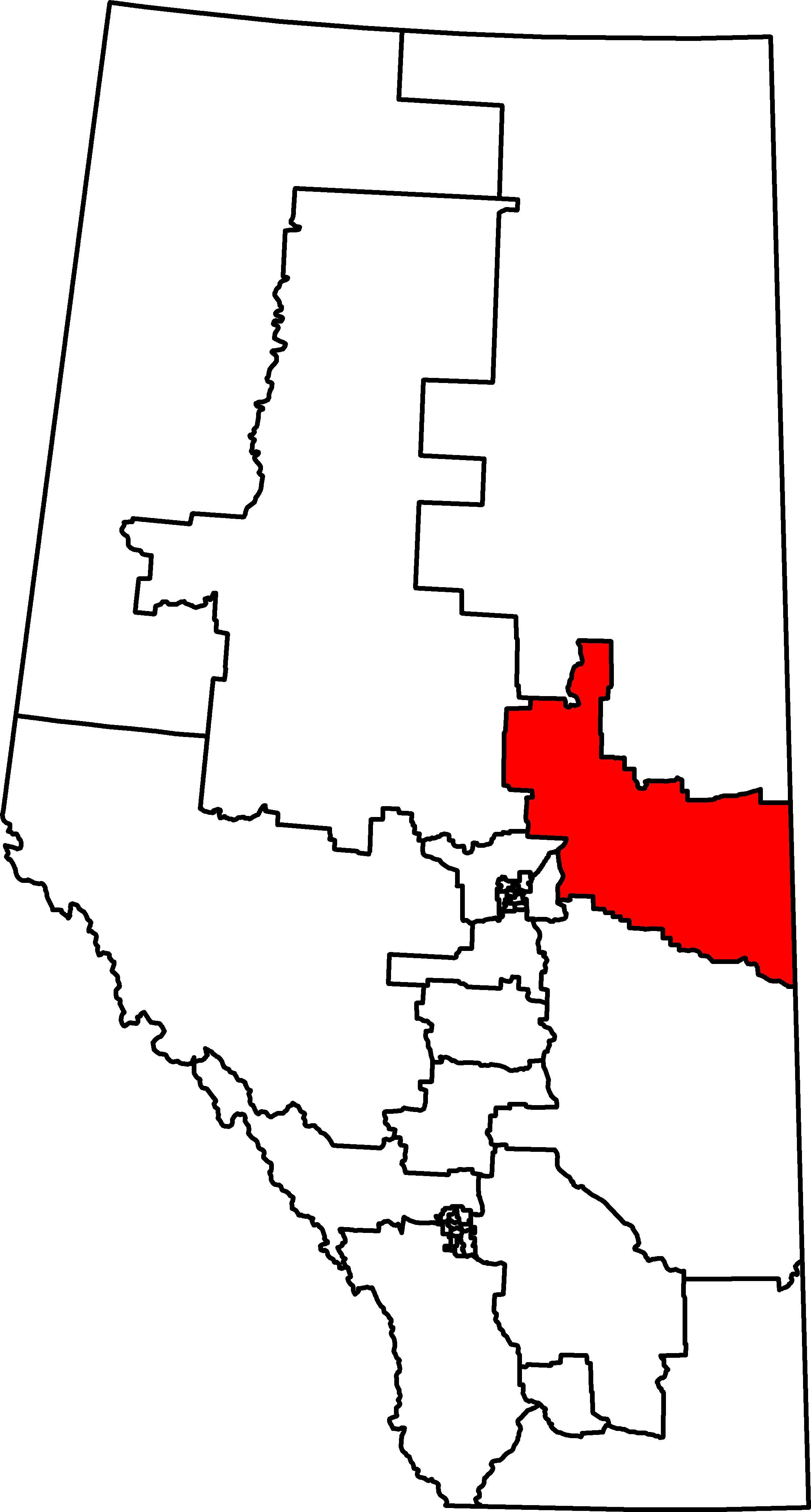 Federal Electoral District in Alberta, Canada as of the 2013 Representation Order.